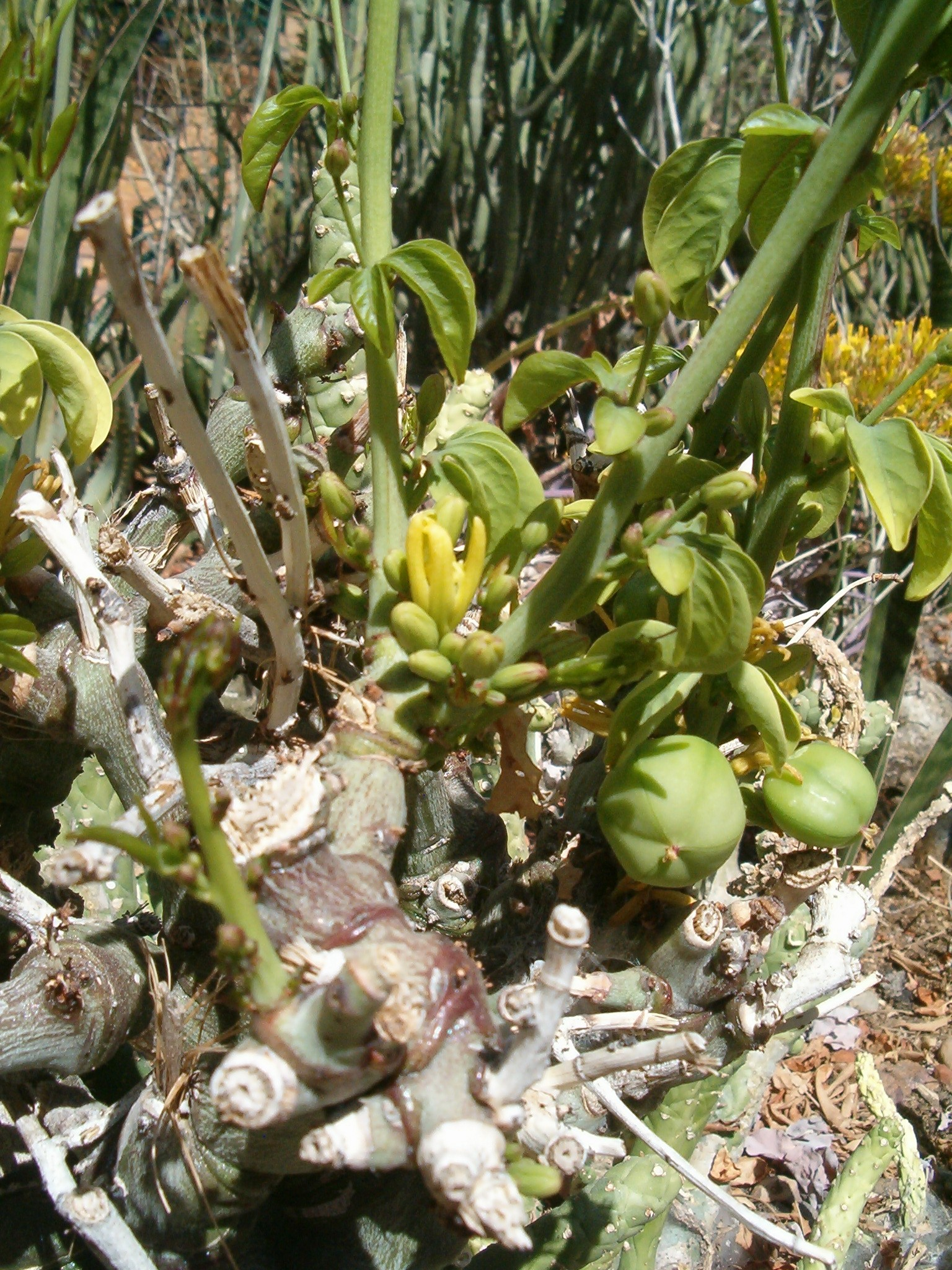 At Kirstenbosch National Botanical Gardens Species Adenia clauca